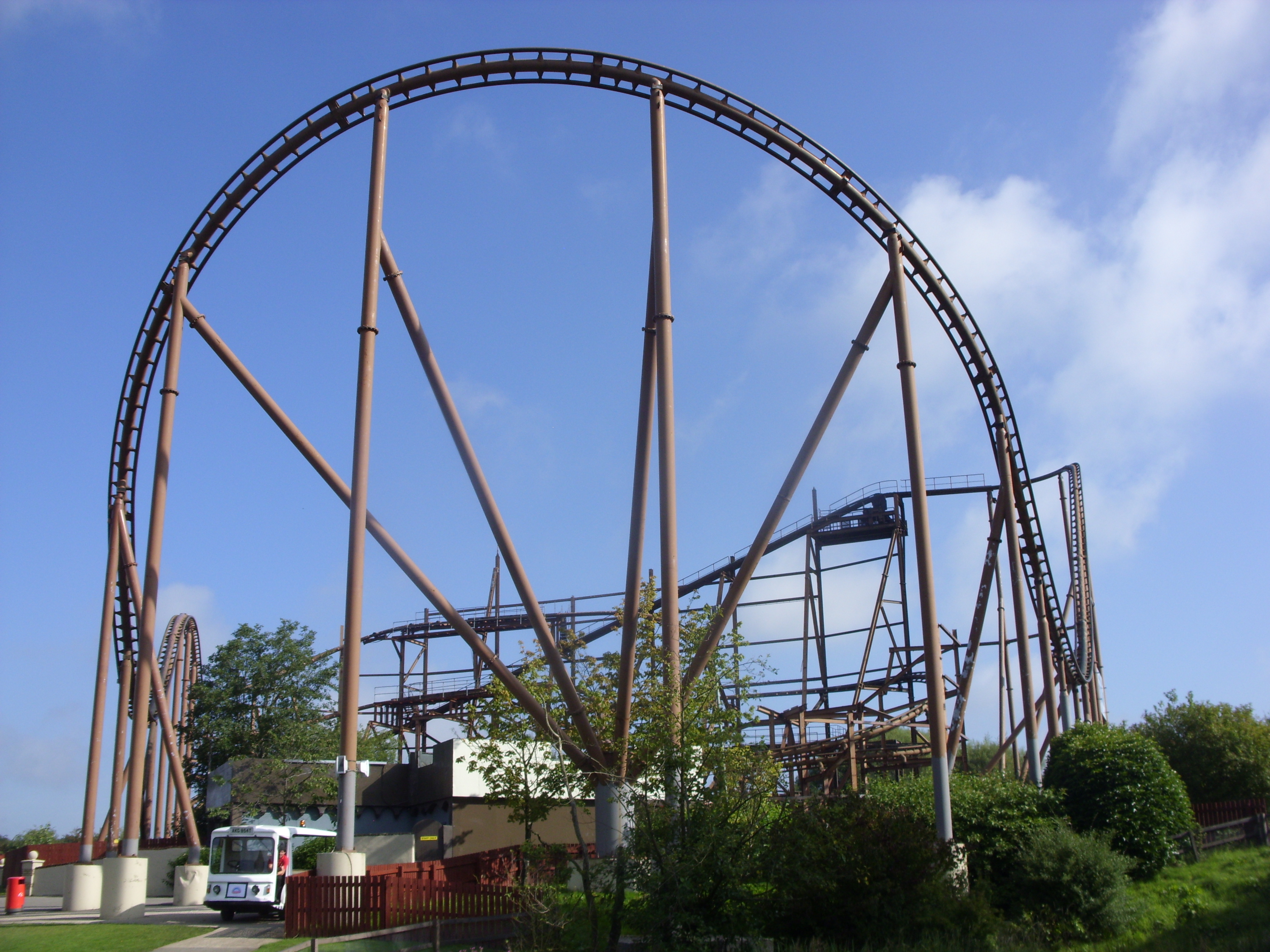 A view of the 'Knightmare' ride at Camelot Theme Park during the summer opening season, 2010.